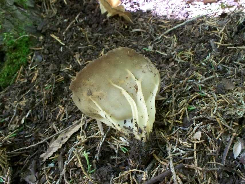 The mushroom Helvella acetabulum (L.) Quél., commonly known as the "Cabbage leaf Helvella". Photographed in Marble Creek Campground, Madison Co., Missouri, USA. Notes: "Found brown cup with white ribs, under cedars & white oak at Marble Creek Campground, Madison County, Missouri. According to reference, this is distintive of Helvella acetabulum (called Cabbage Leaf Helvalla)."